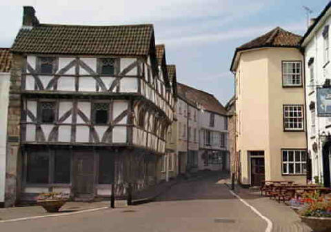 Axbridge, Somerset The main street in Axbridge, Somerset, looking west from the square. The timbered building is called King John's Hunting Lodge, although it was built much later than the time when Anglo-Saxon and Norman kings used Axbridge as a base for hunting.